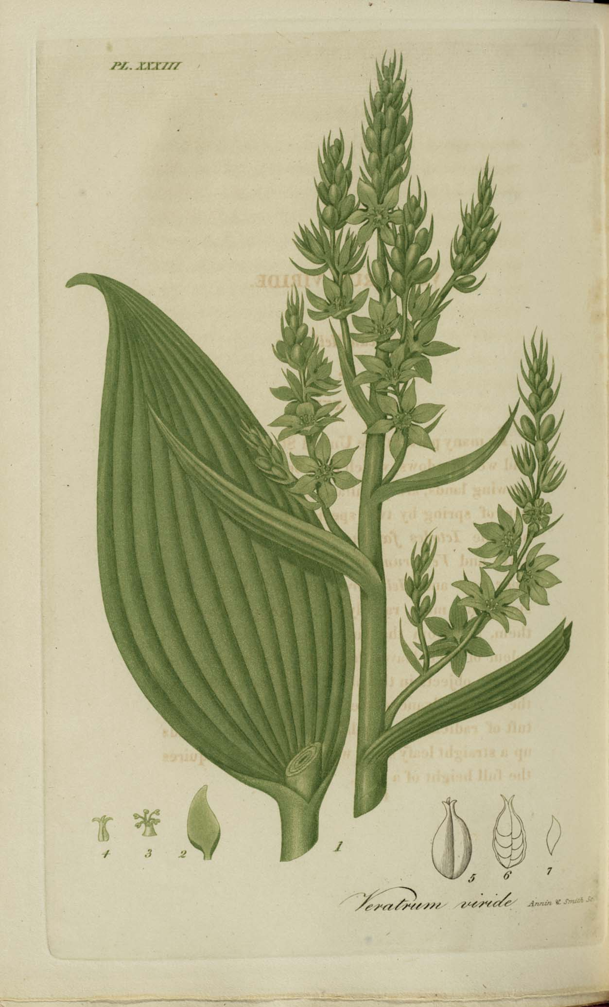 Plate illustration from: Jacob Bigelow. American medical botany: being a collection of the native medicinal plants of the United States. Boston: Cummings and Hilliard, 1817-1820. 3 volumes.